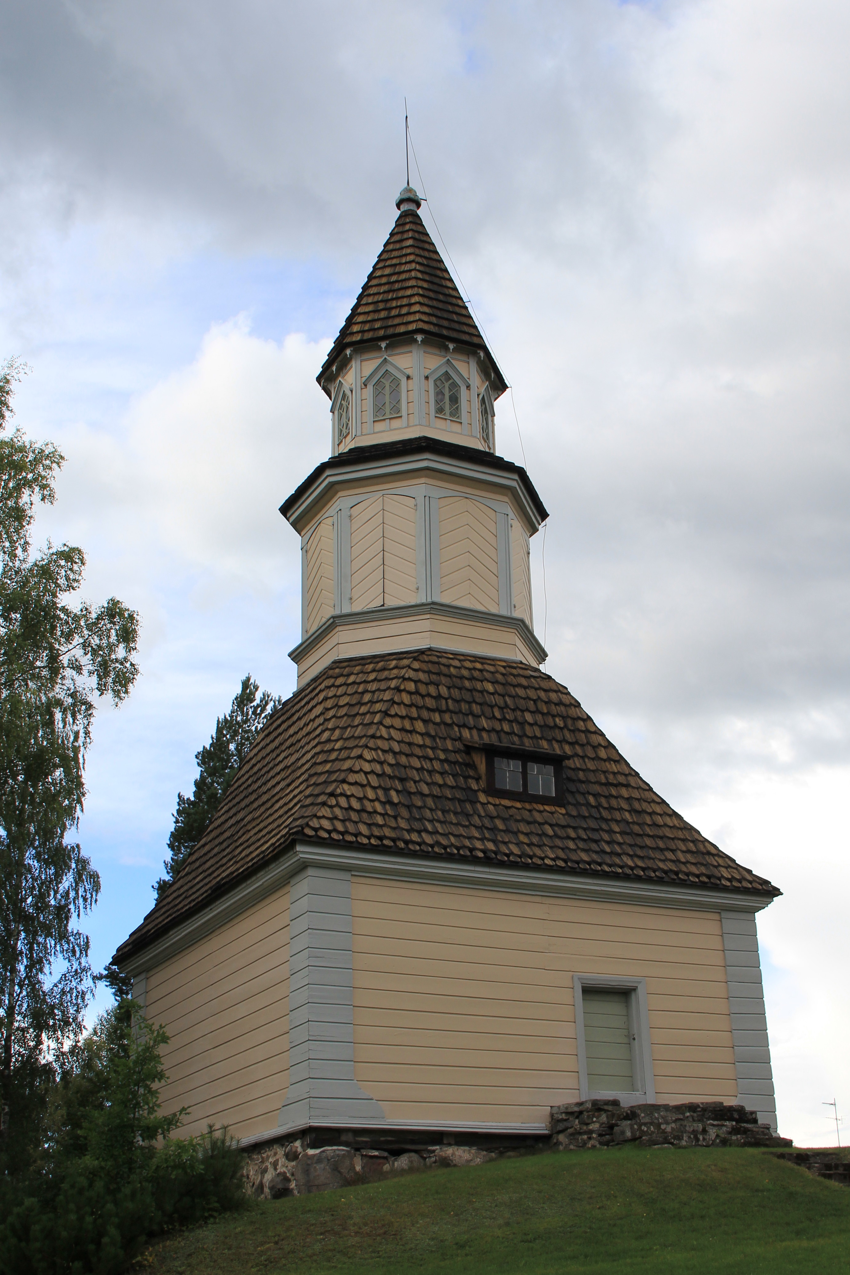 Kuhmoinen bell tower, Kuhmoinen, Finland. - Wooden bell tower built by Mats (Matti) Åkergren, completed in 1786.